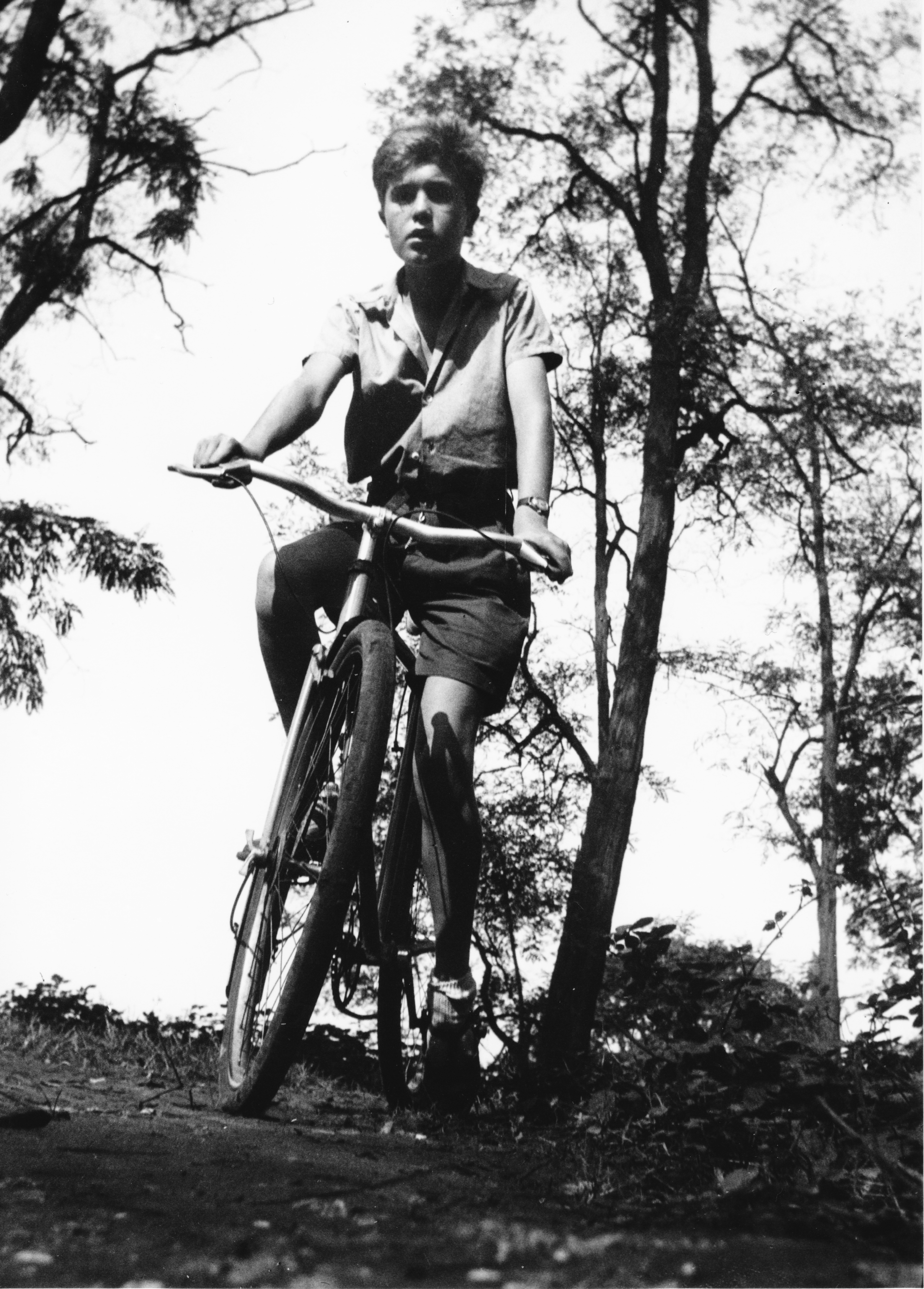 Self-portrait of Jean-Louis Swiners at age 13